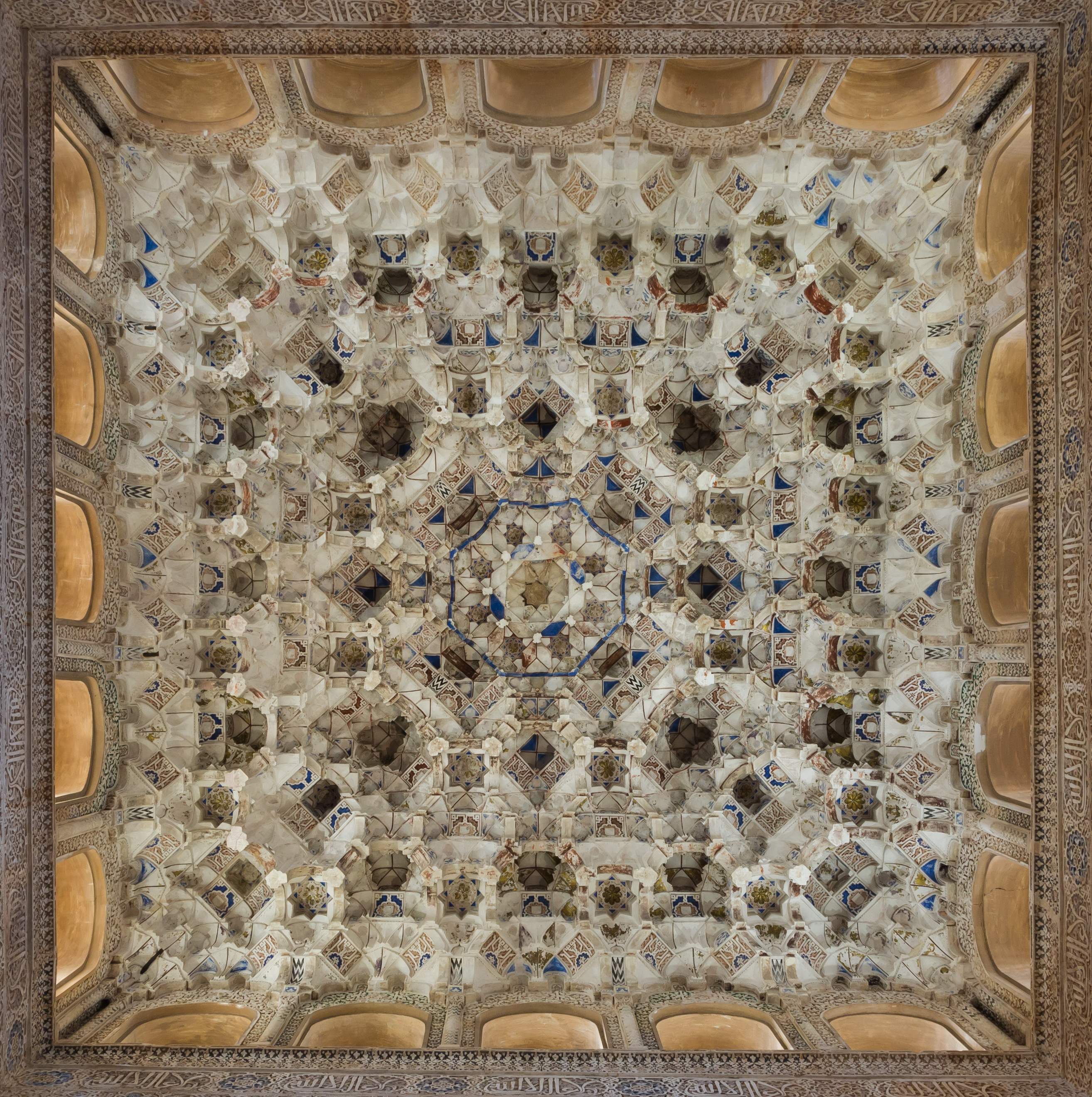 Stucco ceiling, Patio de los Leones, Alhambra, Andalusia, Granada, Spain